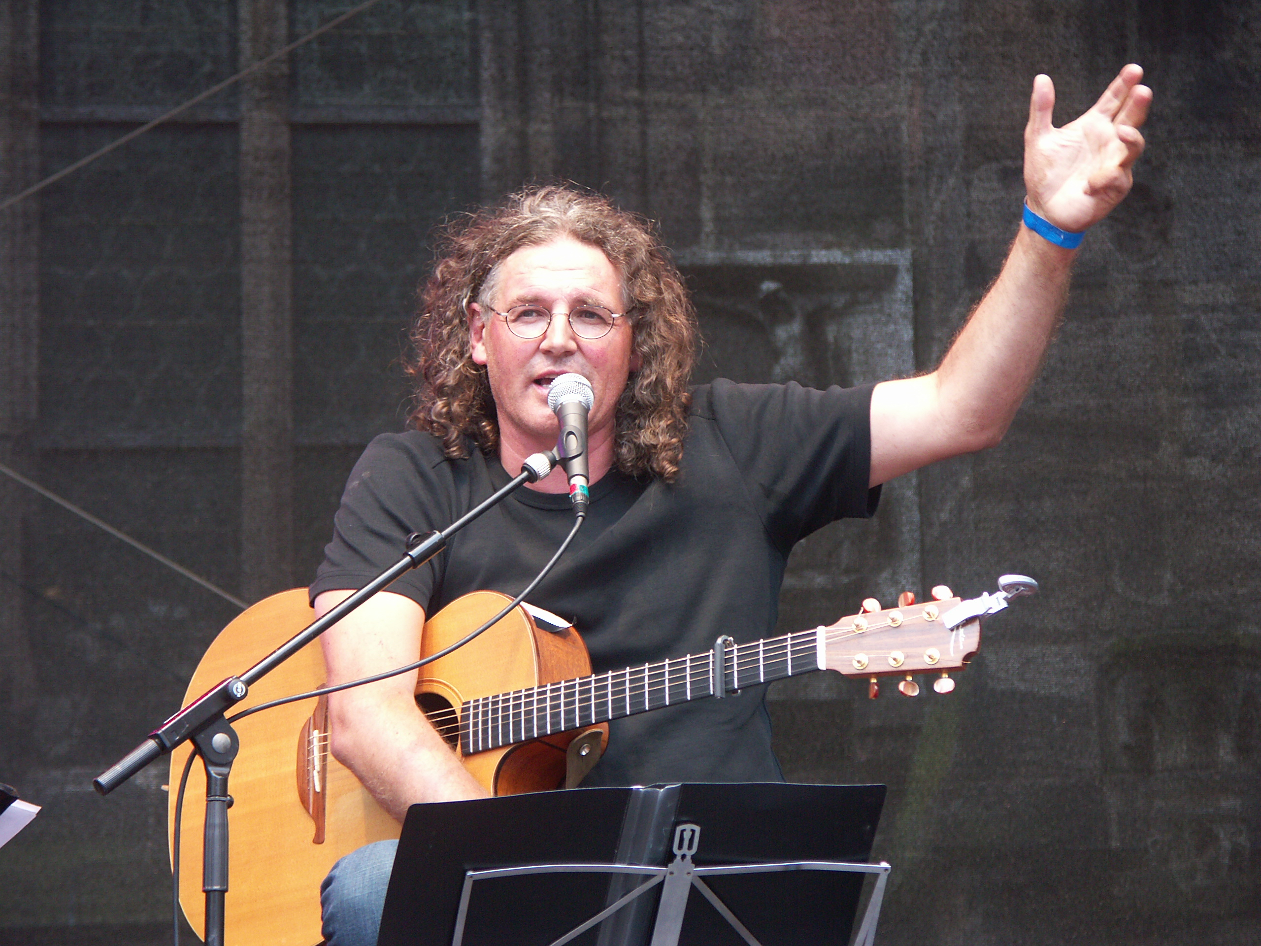 Linard Bardill, singer/songwriter and poet from Switzerland, at the free festival "Bardentreffen" 2009 in Nuremberg / Germany (appearance together with Pippo Pollina)